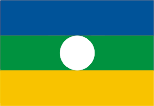 Rwenzururu firts flag 1962-1982